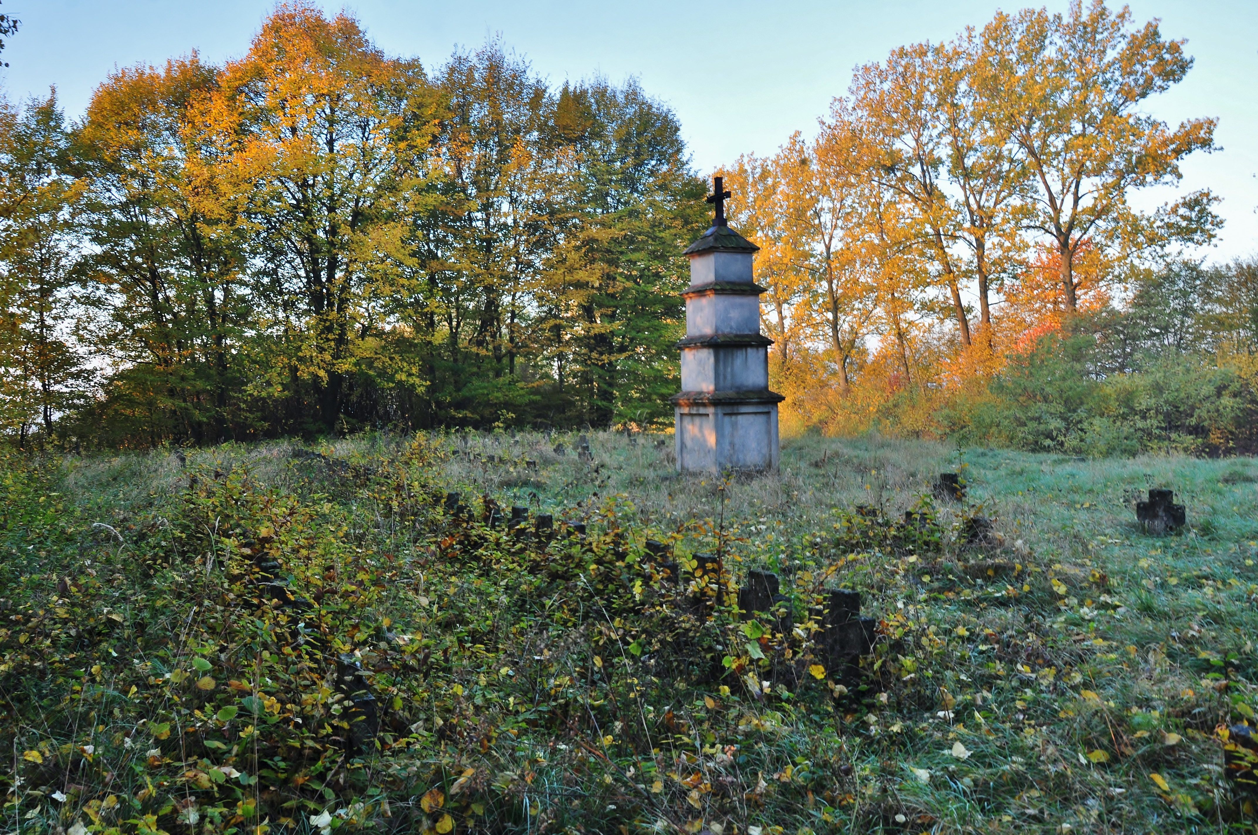 Cemetery of Austro-Hungarian Army soldiers, fallen in WW I, between Zhovtanci and Remeniv villages, Kamianka-Buzka Raion.